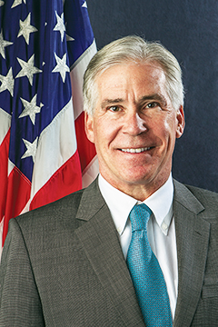 Peter M Brennan, current Charge d'Affaires of Bolivia